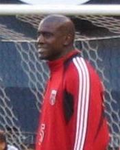 Photo of Ezra Hendrickson taken by me at a D.C. United game at Robert F. Kennedy Memorial Stadium.